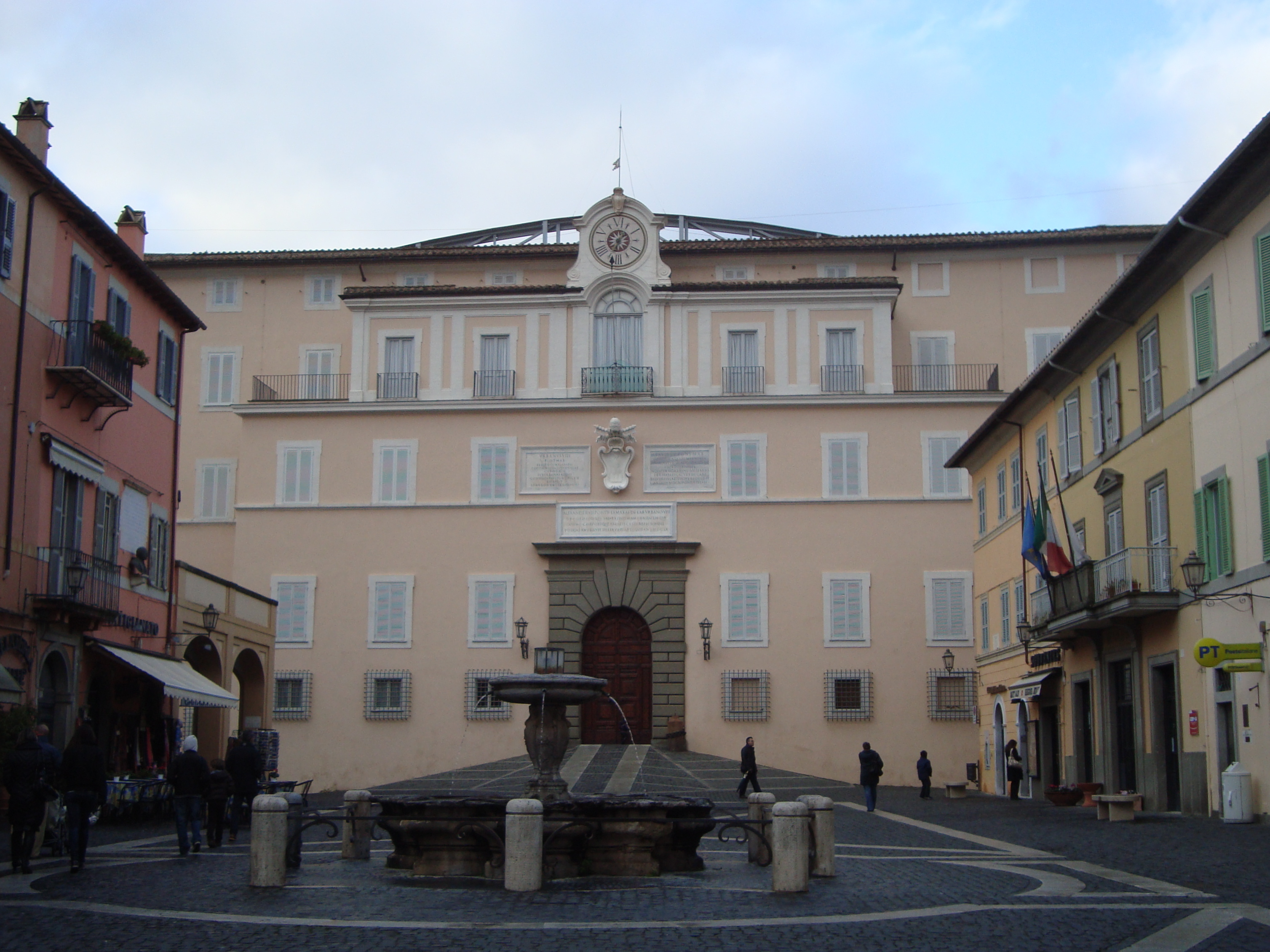 The facade of the pontifical palace at Piazza della Liberta in Castel Gandolfo